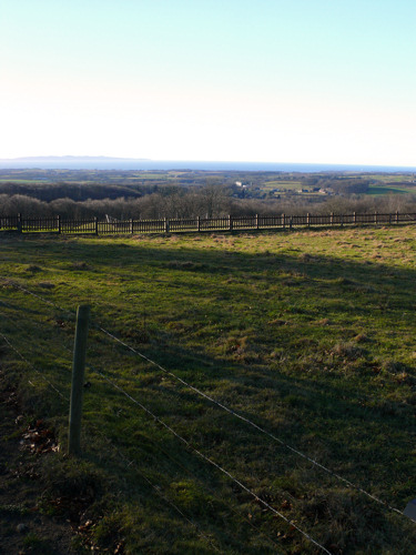 The Bjäre peninsula in Skåne, Sweden.